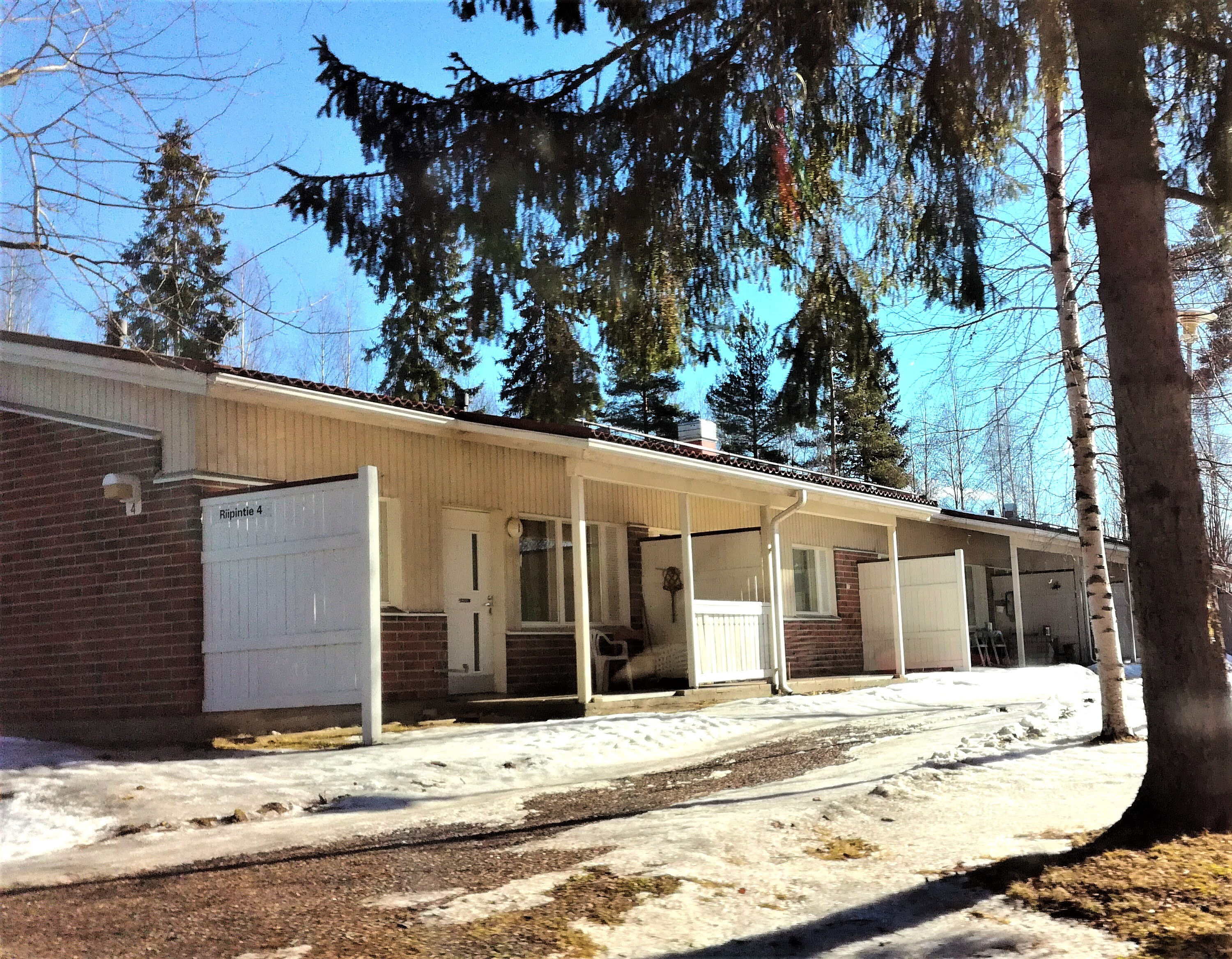 Riipintie 4 in Vihtavuori, Laukaa